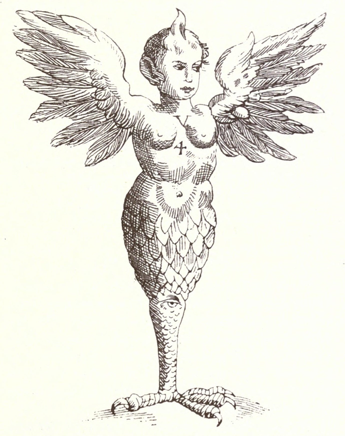 CURIOUS CREATURES. 173 Like them also, there were three of them ; but, unlike them, they had such lovely voices, and were so beautiful, that they lured seamen to their destruction, they having no power to combat the allurements of the Sirens ; whilst the Harpies emitted an infectious smell, and spoiled what- ever they touched, with their filth, and excrements. Licetus, writing in 1634, and Zahn, in 1696, give the accompanying picture of a monster born at Ravenna in